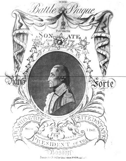 Cover of sheet music of Franz Kotzwara's "Battle of Prague," published by G. Graupner, Boston, Massachusetts. Depicts portrait of George Washington.